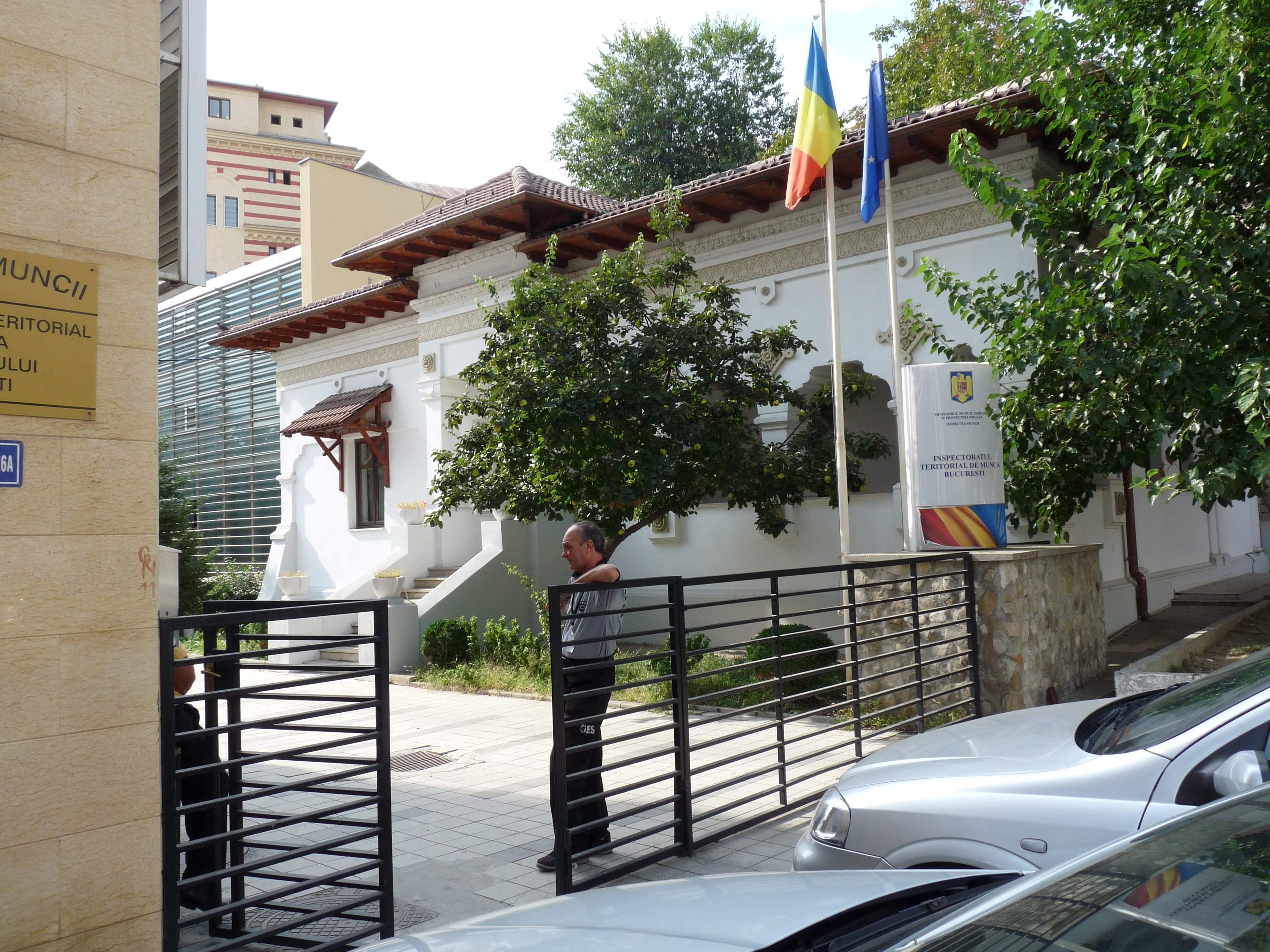 Historic building in Bucharest, Romania, on Radu Vodă street 26Română: Clădire istorică în Bucureşti, România, str. Radu Vodă 26